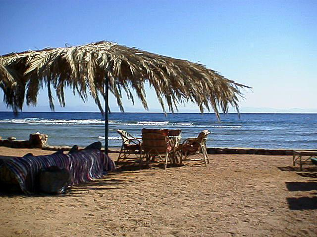 Beach, Dahab, Egypt.